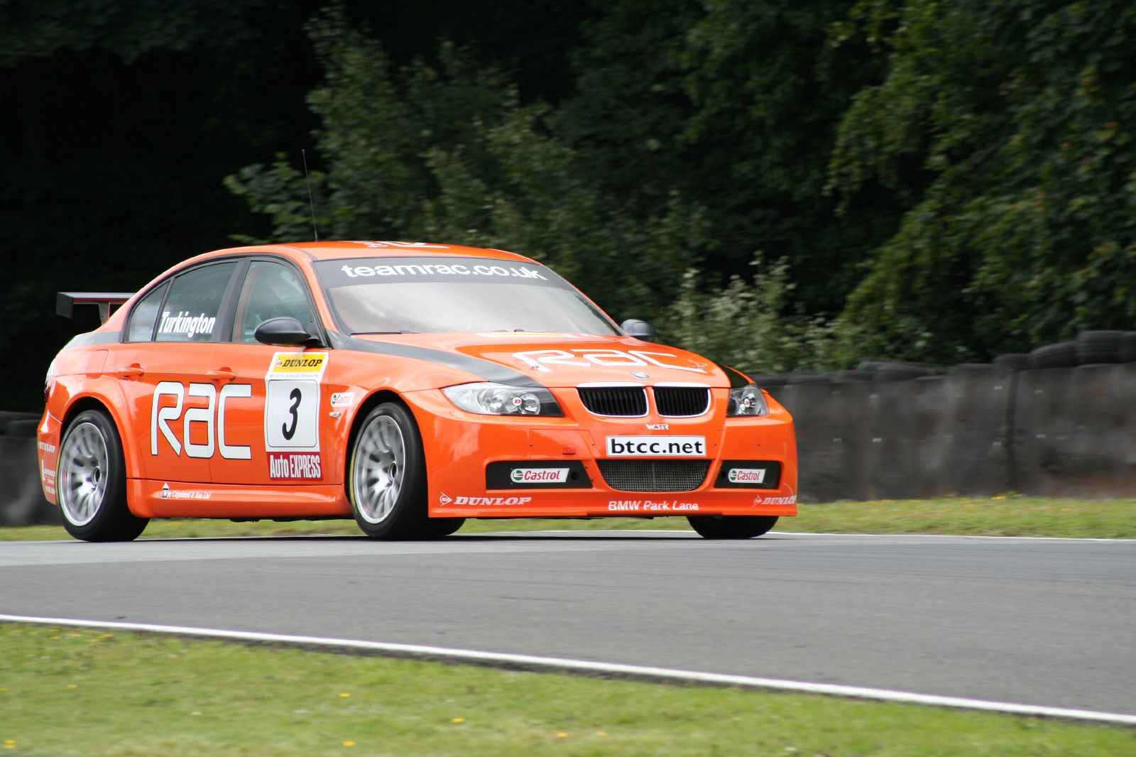 Colin Turkington driving for BMW at the Oulton Park round of the 2007 British Touring Car Championship.